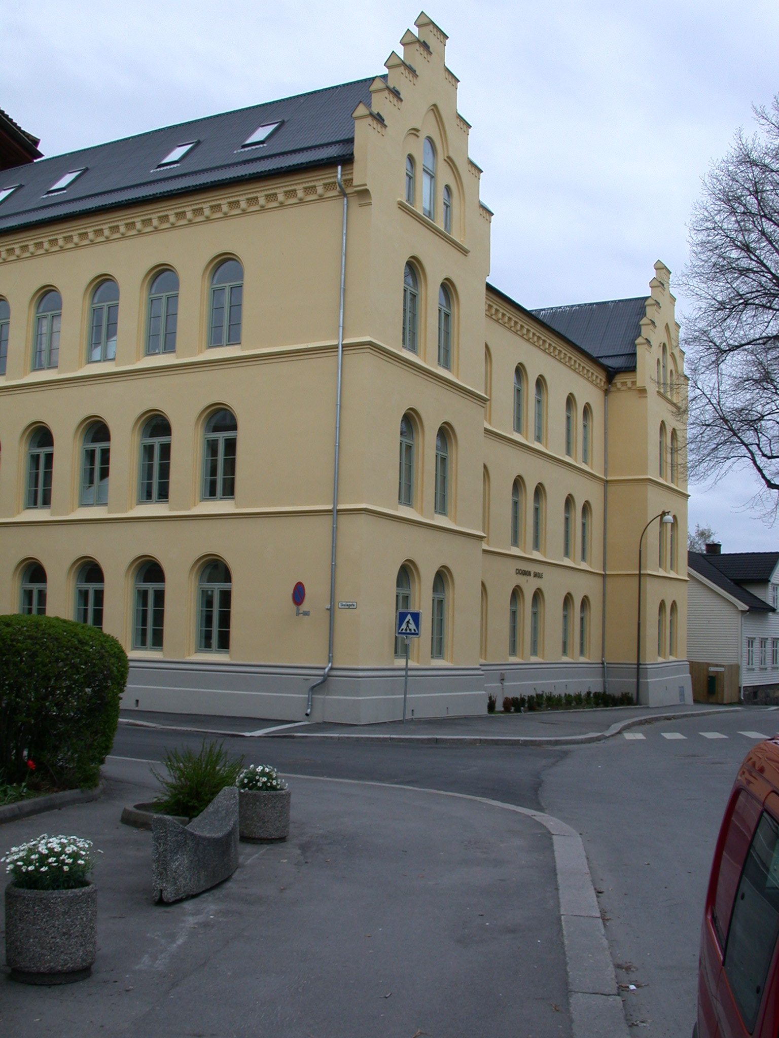 Fredrikstad høiere almenskole.